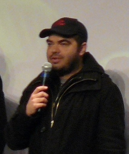 French director Xavier Gens at Fantastic'arts